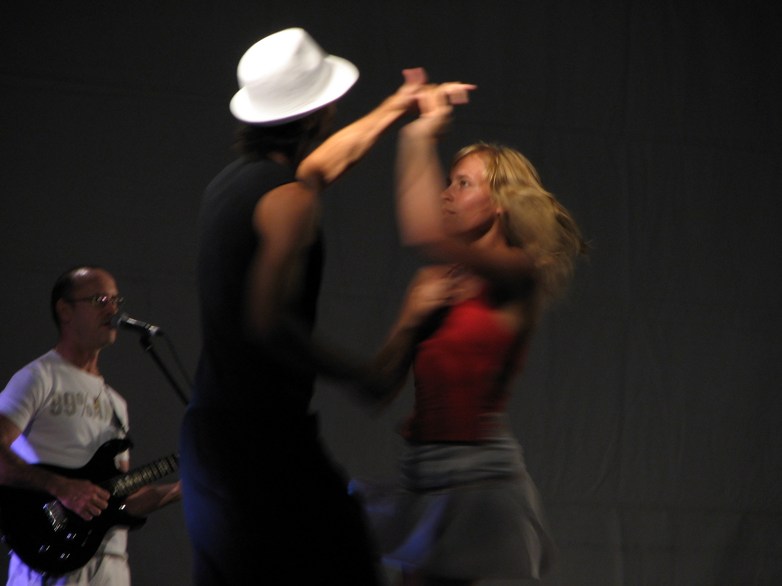 Salsa band and salsa dancing - Fatacil Agriculture and Tourism Fair - Lagoa - The Algarve, Portugal